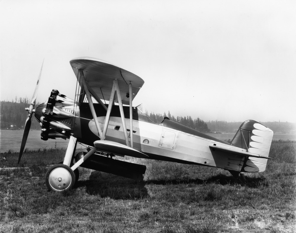 PictionID:40960319 - Catalog:16_000001 Boeing Model 83 mfr - Filename:16_000001 Boeing Model 83 mfr.tif - - - Ray Wagner was Archivist at the San Diego Air and Space Museum for several years and is an author of several books on aviation --- ---Please Tag these images so that the information can be permanently stored with the digital file.---Repository: San Diego Air and Space Museum